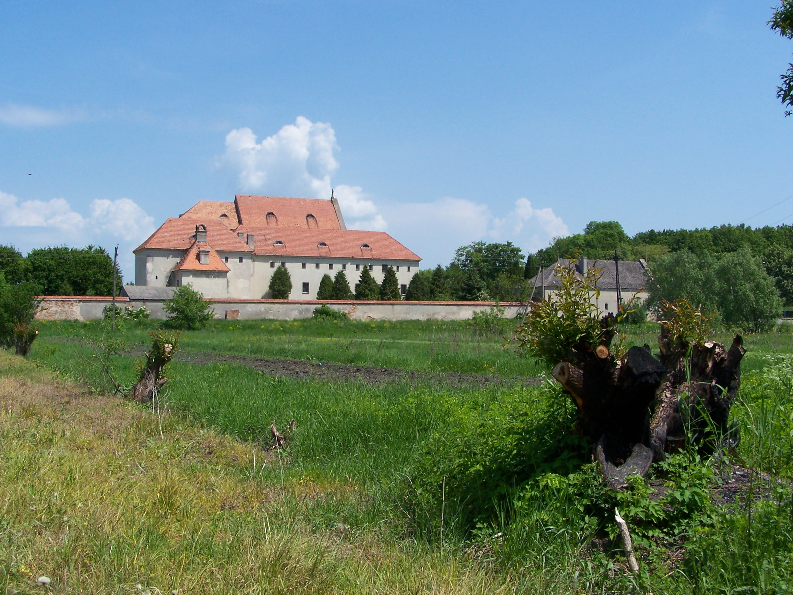 Monastery in Olesko (Ukraine).